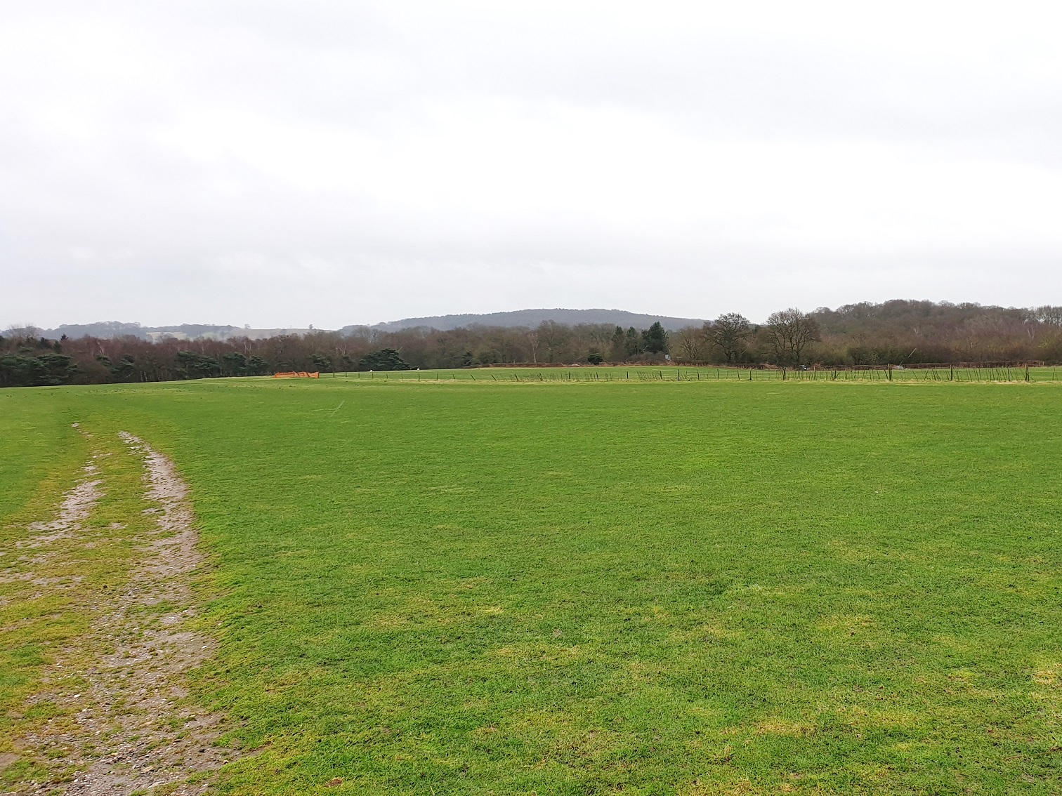 Site of Roman Camp at Calverton